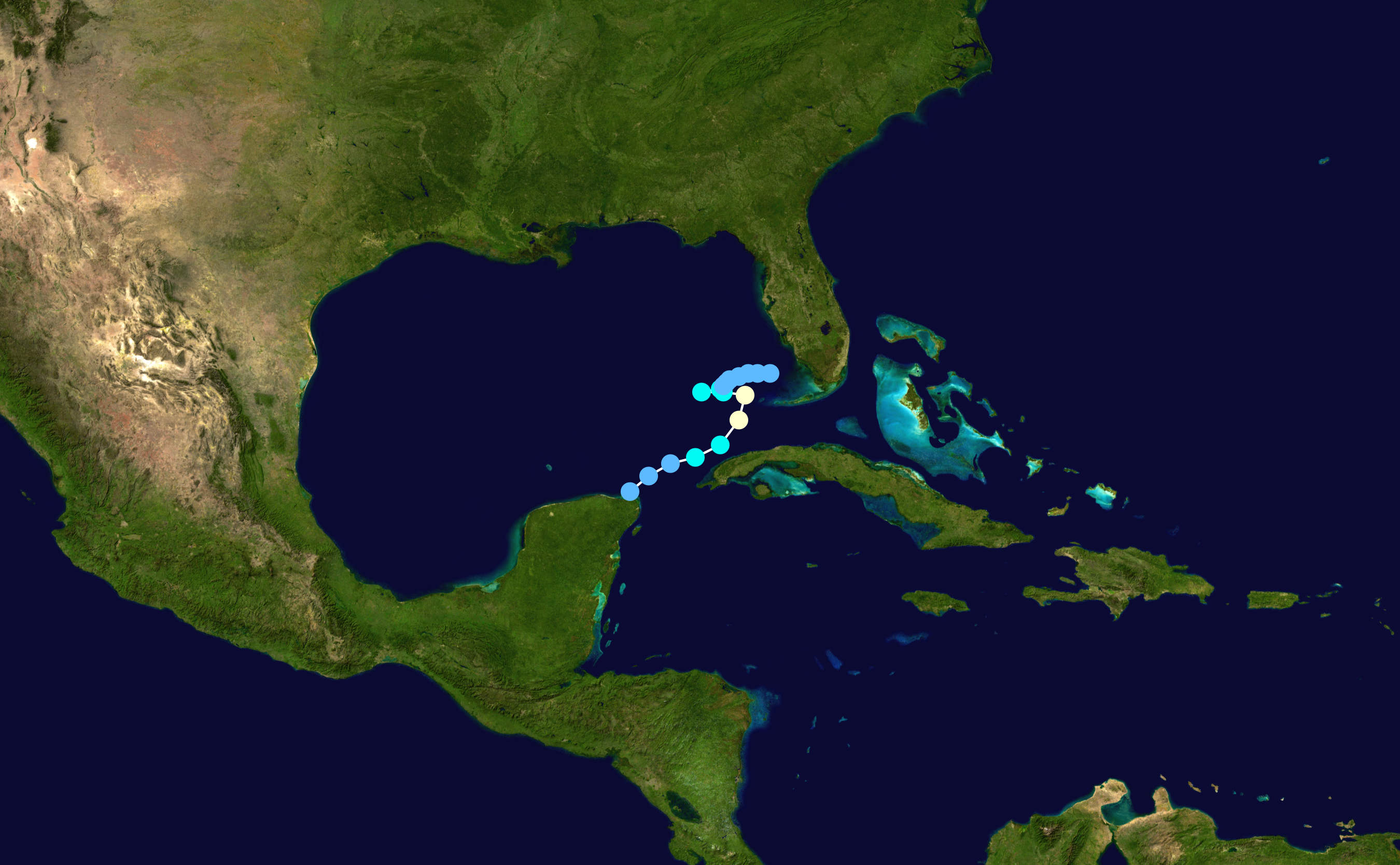 Hurricane Alberto (1982) track. Uses the color scheme from the Saffir-Simpson Hurricane Scale.